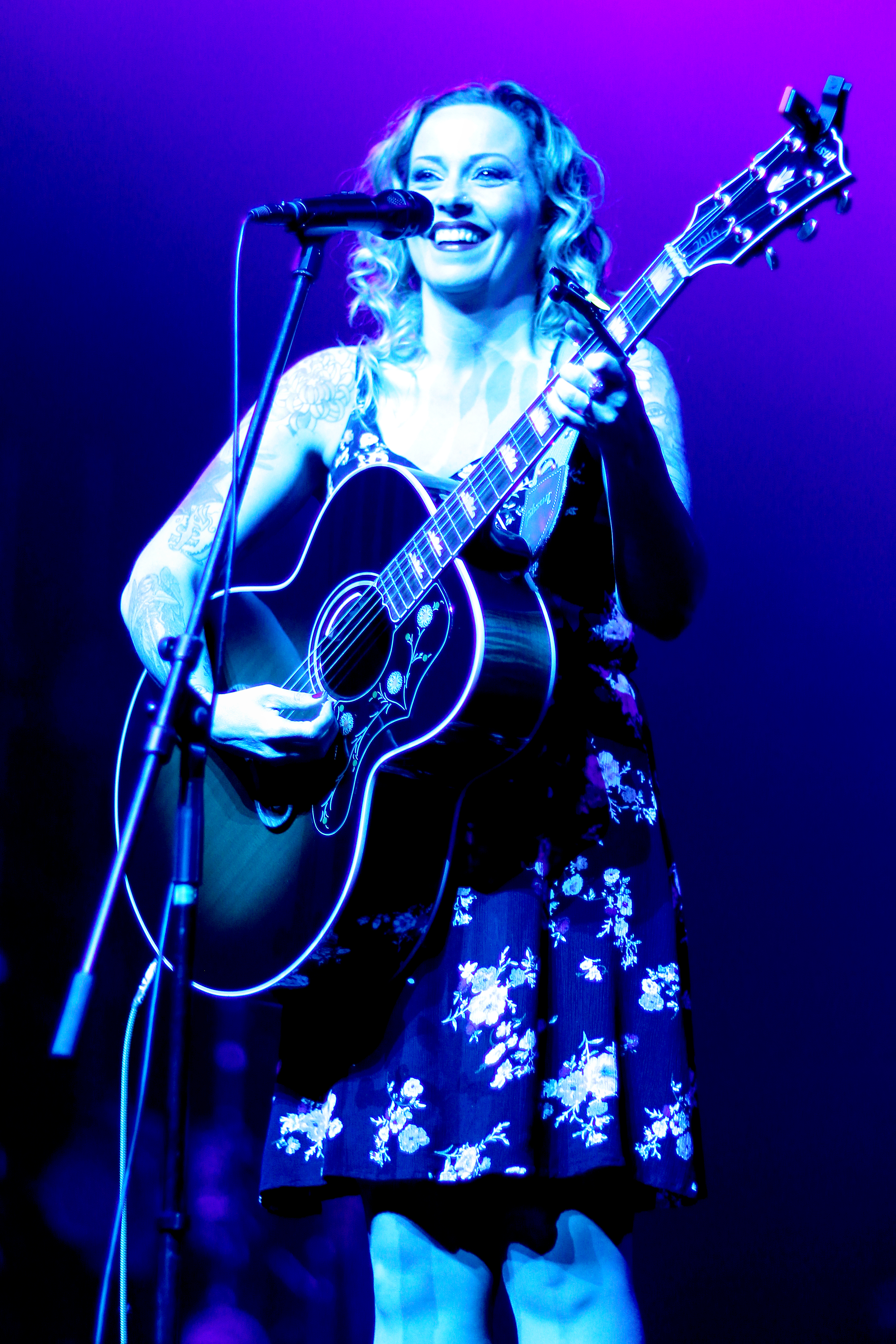 The Dutch female singer Anneke van Giersbergen at the Wave-Gotik-Treffen 2018 in Leipzig/Germany (Venue Schauspielhaus).